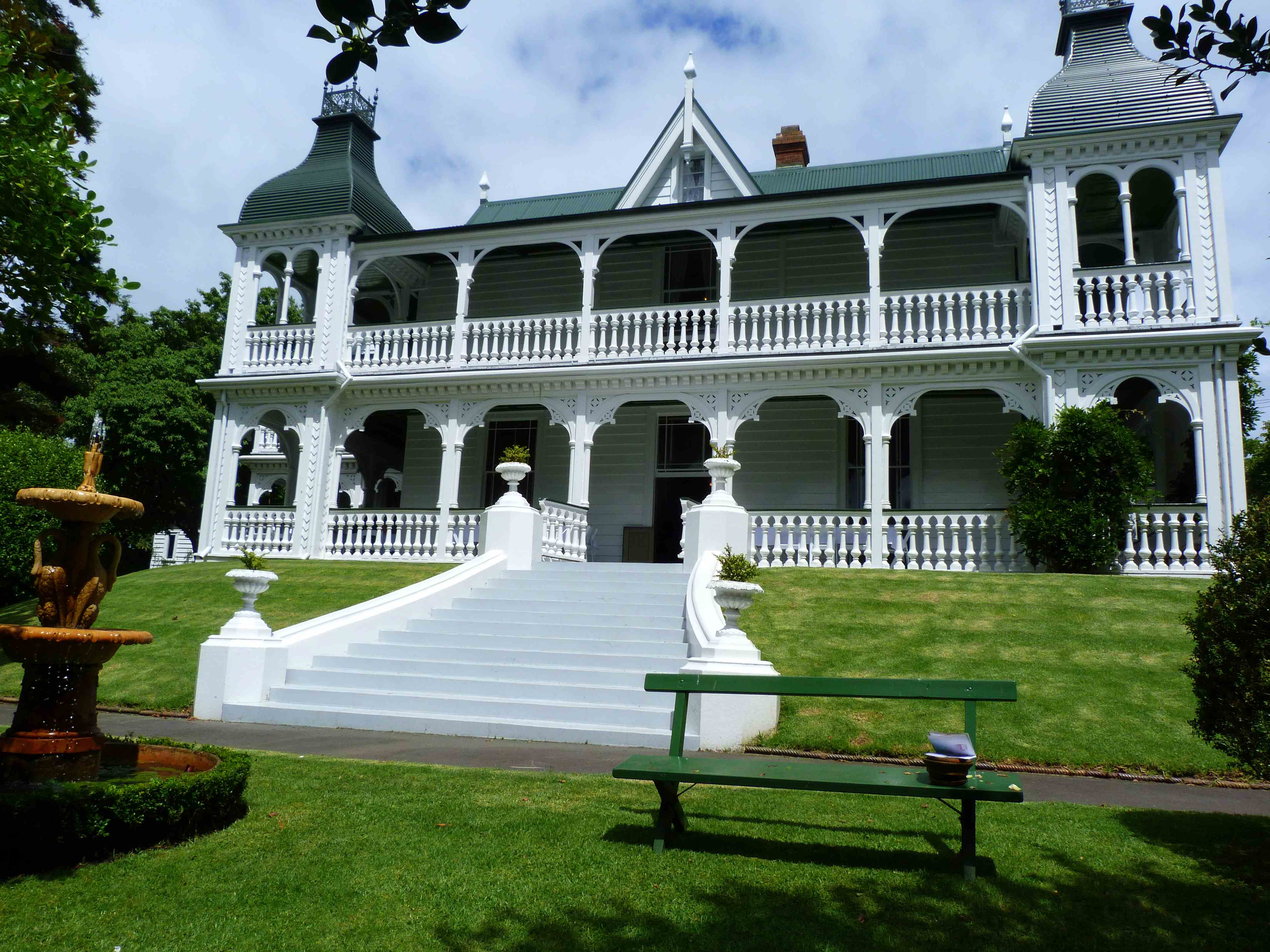 Alberton House, home of the Kerr-Taylor family in Mt Albert, Auckland, built 1851.